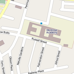 Map of Montrose showing Montrose Academy